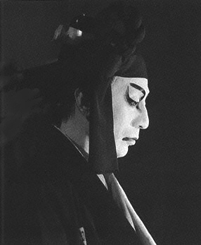 Ebizō Ichikawa IX (1909–65) as Hanakawato Sukeroku